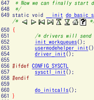 The Linux kernel source code (version 2.6.18)